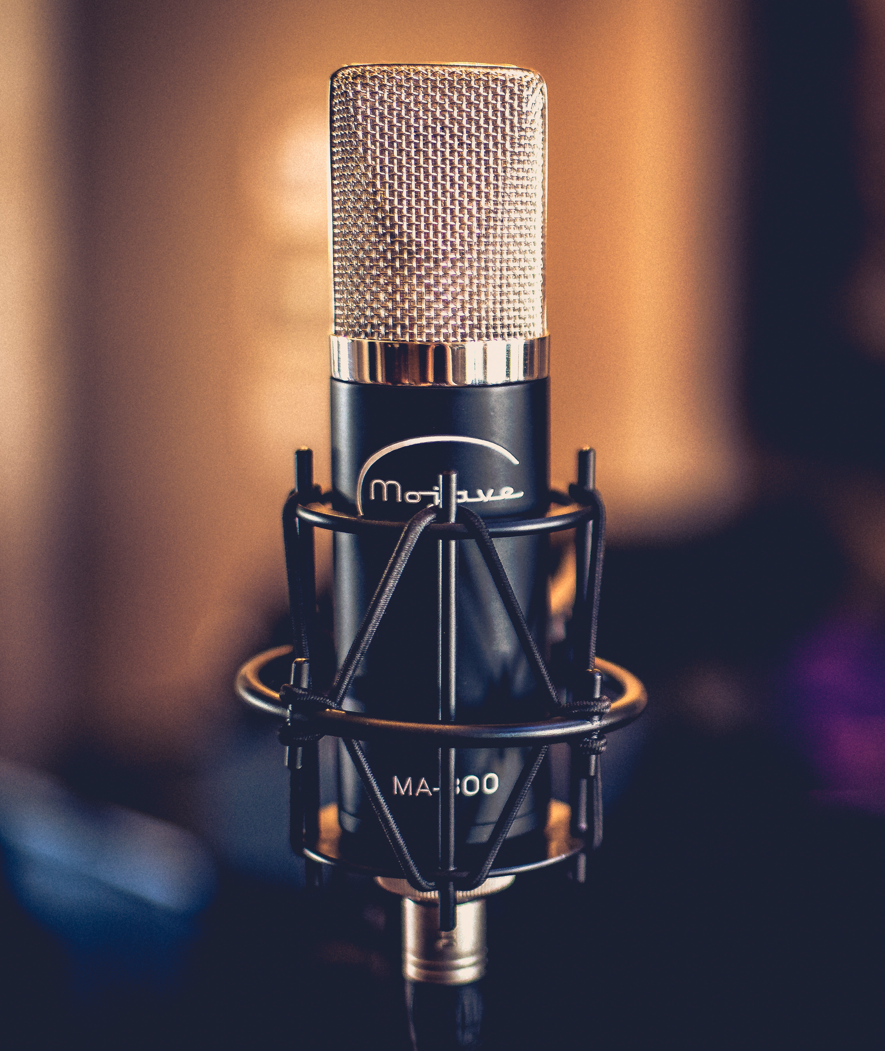 Mojave Audio MA300 Multi Pattern Vacuum Tube Condenser Microphone